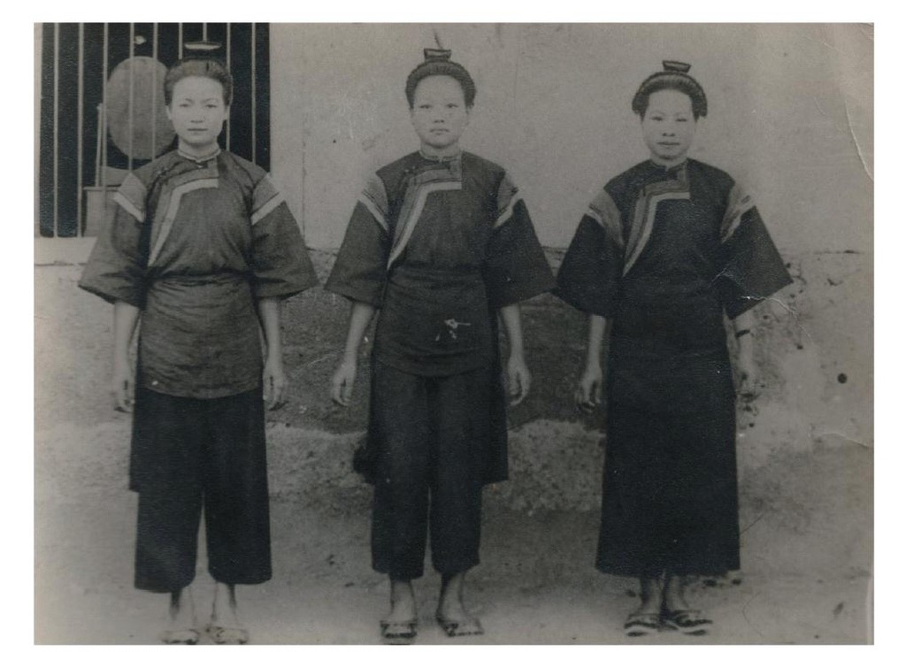 Hakka women in Kaohsiung with traditional wearing